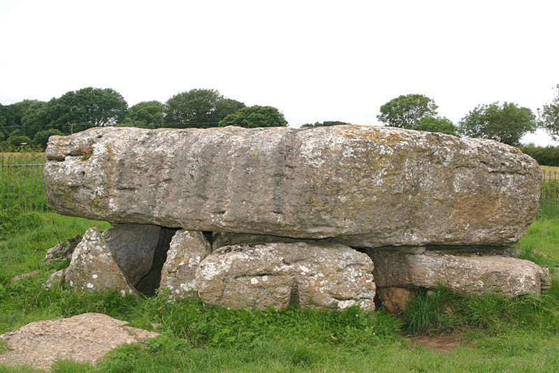 Llugwy burial chamber, Anglesey